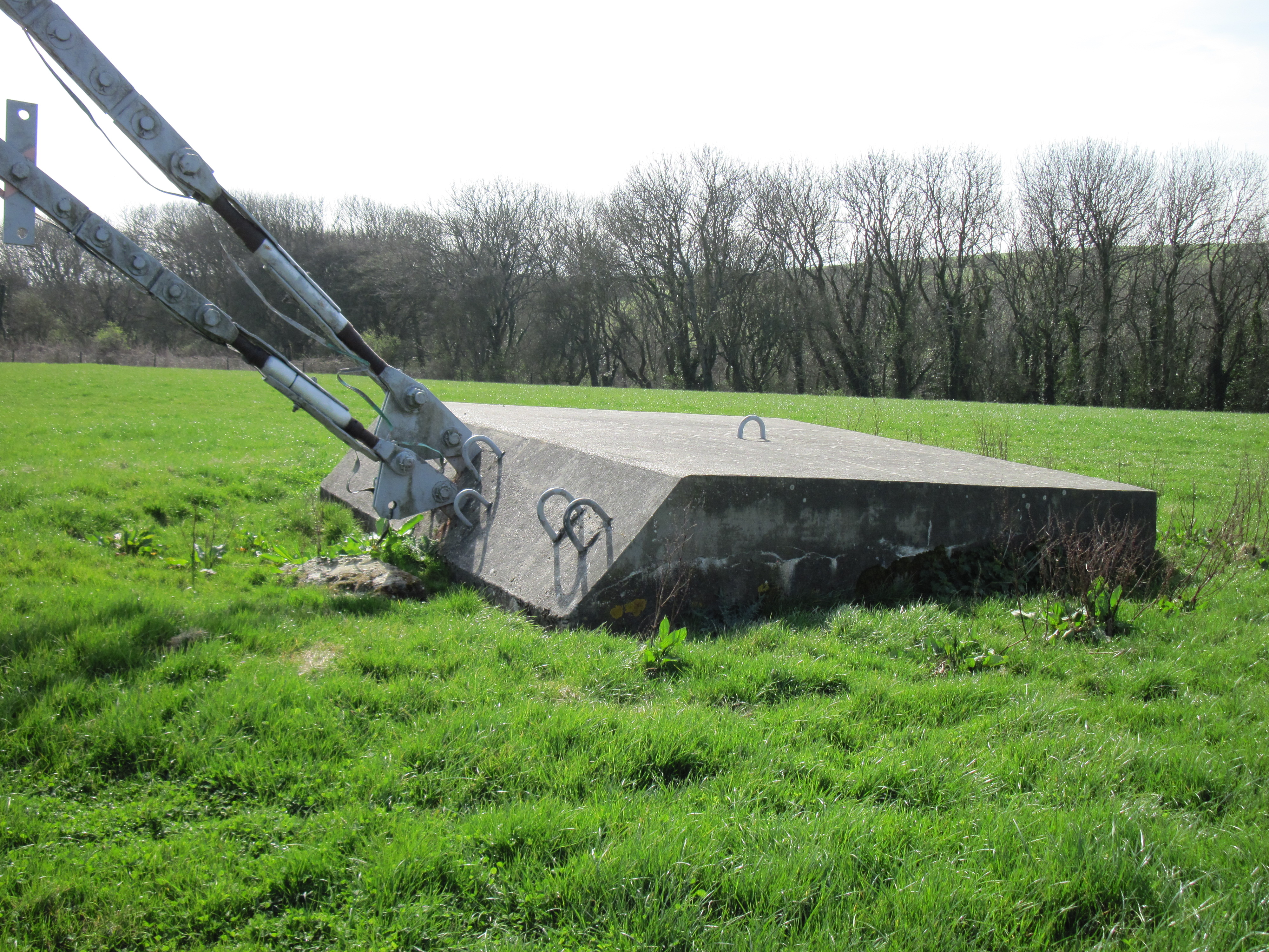 Guyed mast anchor at Chillerton Down transmitting station, a broadcasting facility for FM and DAB radio at Chillerton Down on the Isle of Wight off the south coast of England